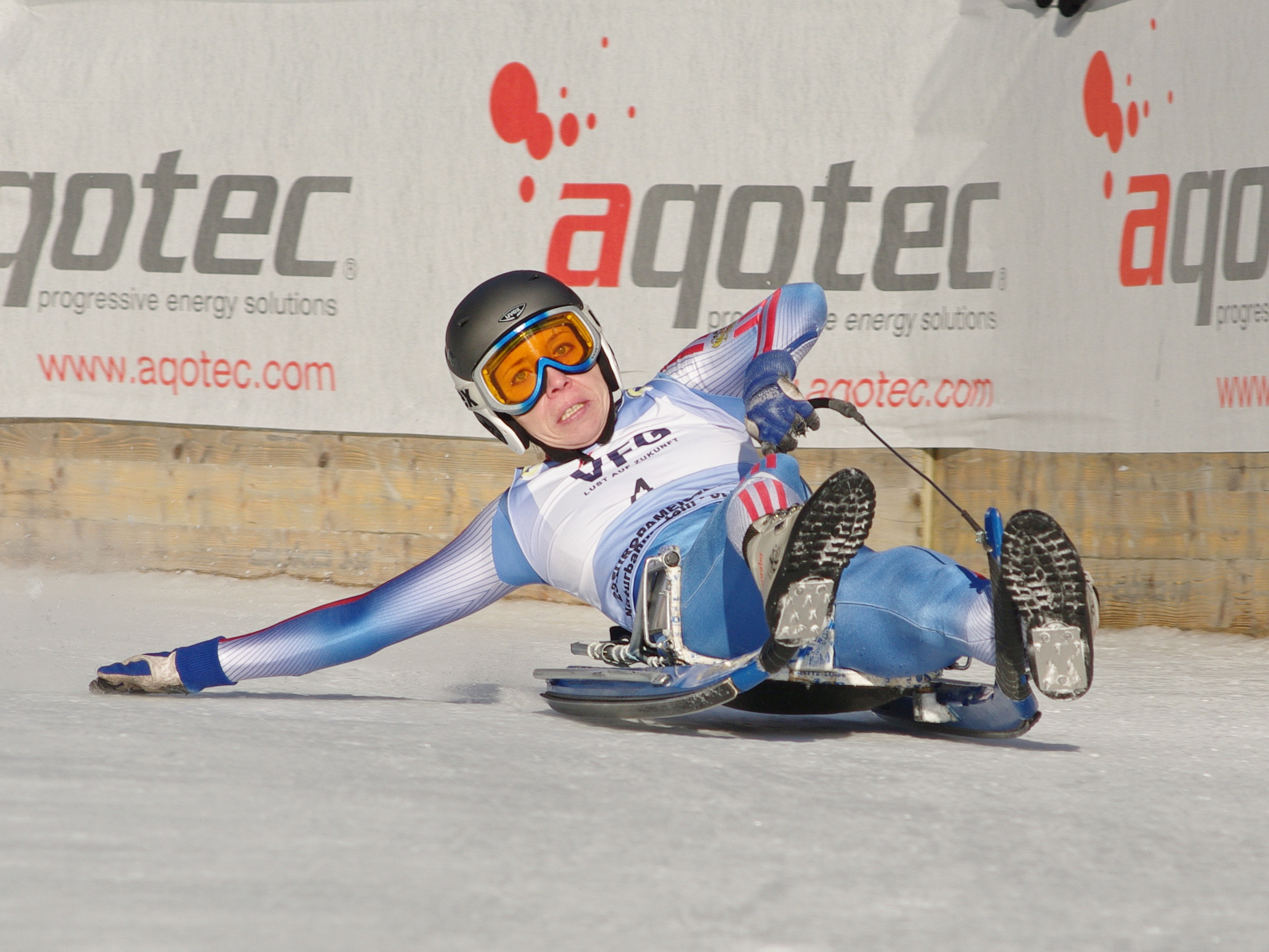 Russian natural track luger Yekaterina Lavrentyeva at the FIL European Luge Natural Track Championships 2010 in St. Sebastian, Austria.